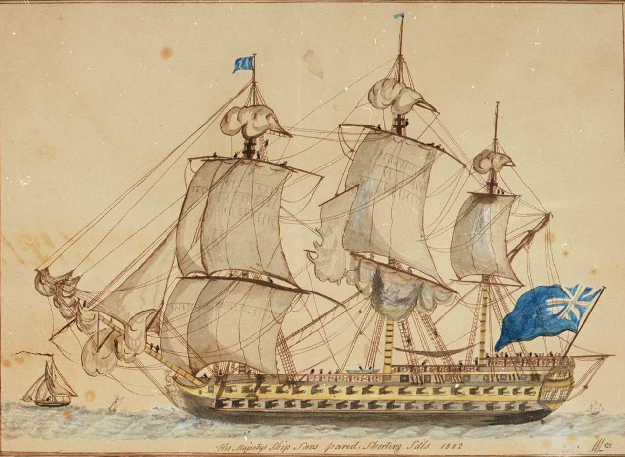 His Majestys Ship Sans Pareil shorting sails 1802